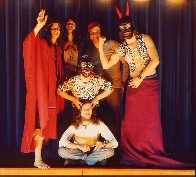 Grobschnitt in 1974. From left standing: Lupo, Eroc, Wildschwein, McPorneaux, sitting: Mist, above Toni Moff Mollo